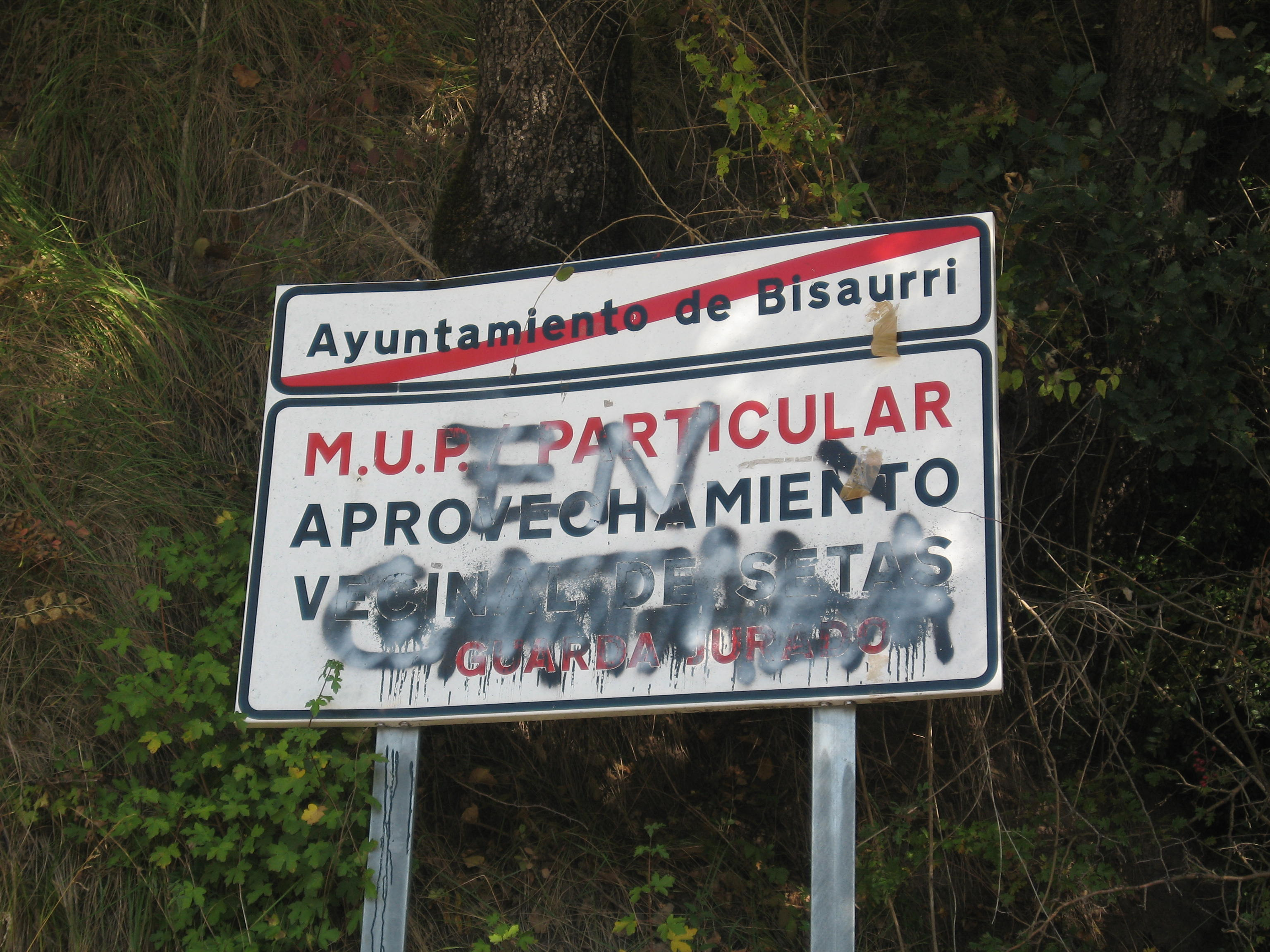 A graffiti on a road sign in Franja d'Aragó. The road sign is written in Spanish and the graffiti says "En Català".